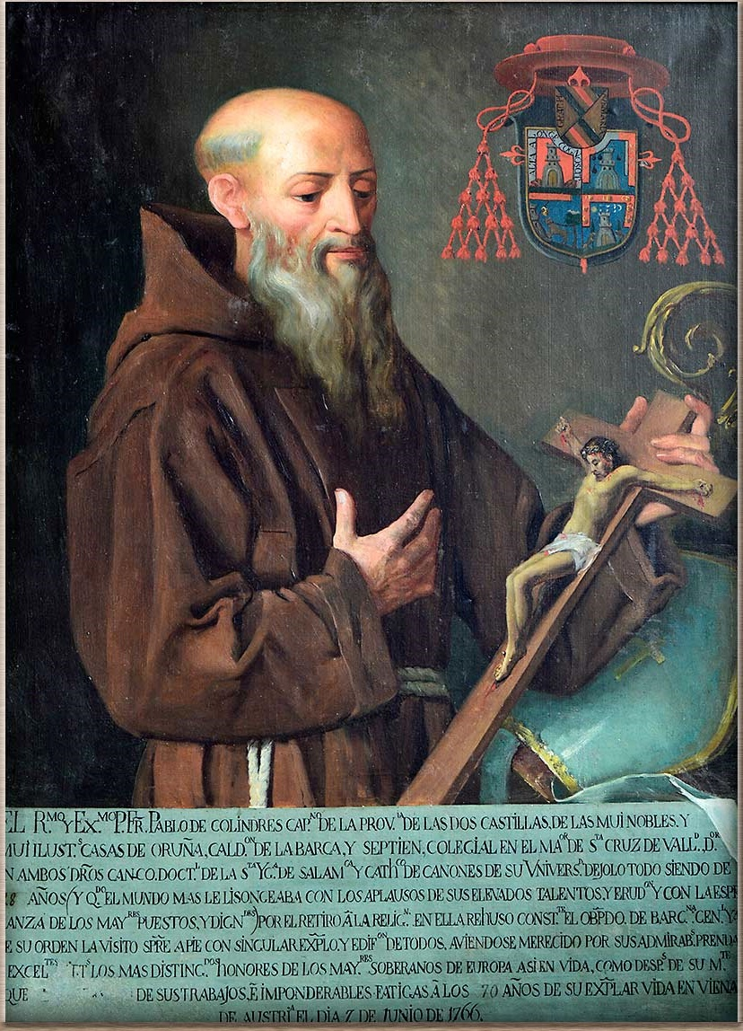 Paul von Colindres (1696-1766), Ordensgeneral der Kapuziner